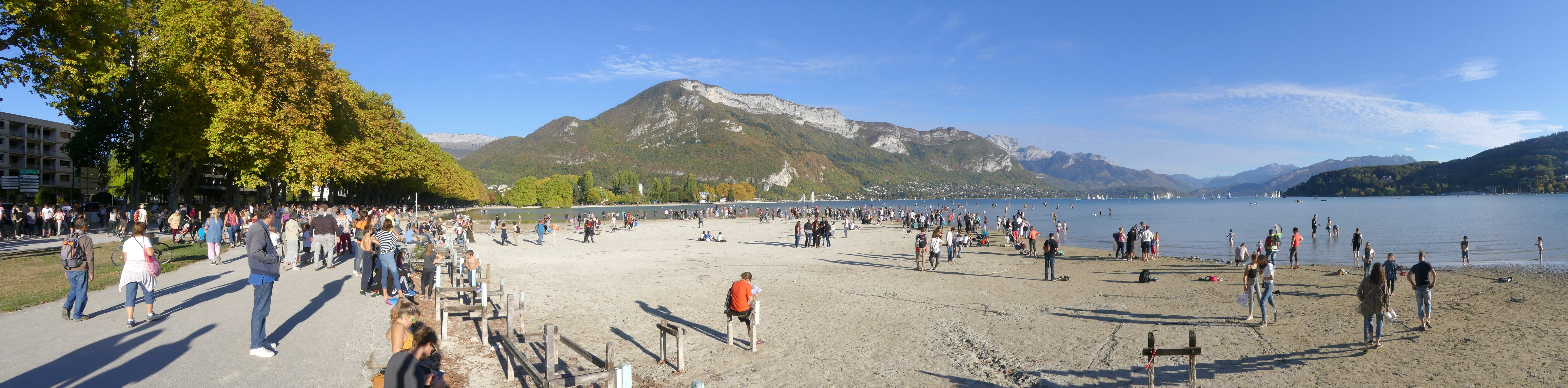 Panoramic sight, from Annecy, its lake at a very low level (13 cm instead of 80 cm) due to the 2018 European drought, in Haute-Savoie, France. Usually, this visible beach does not exist.